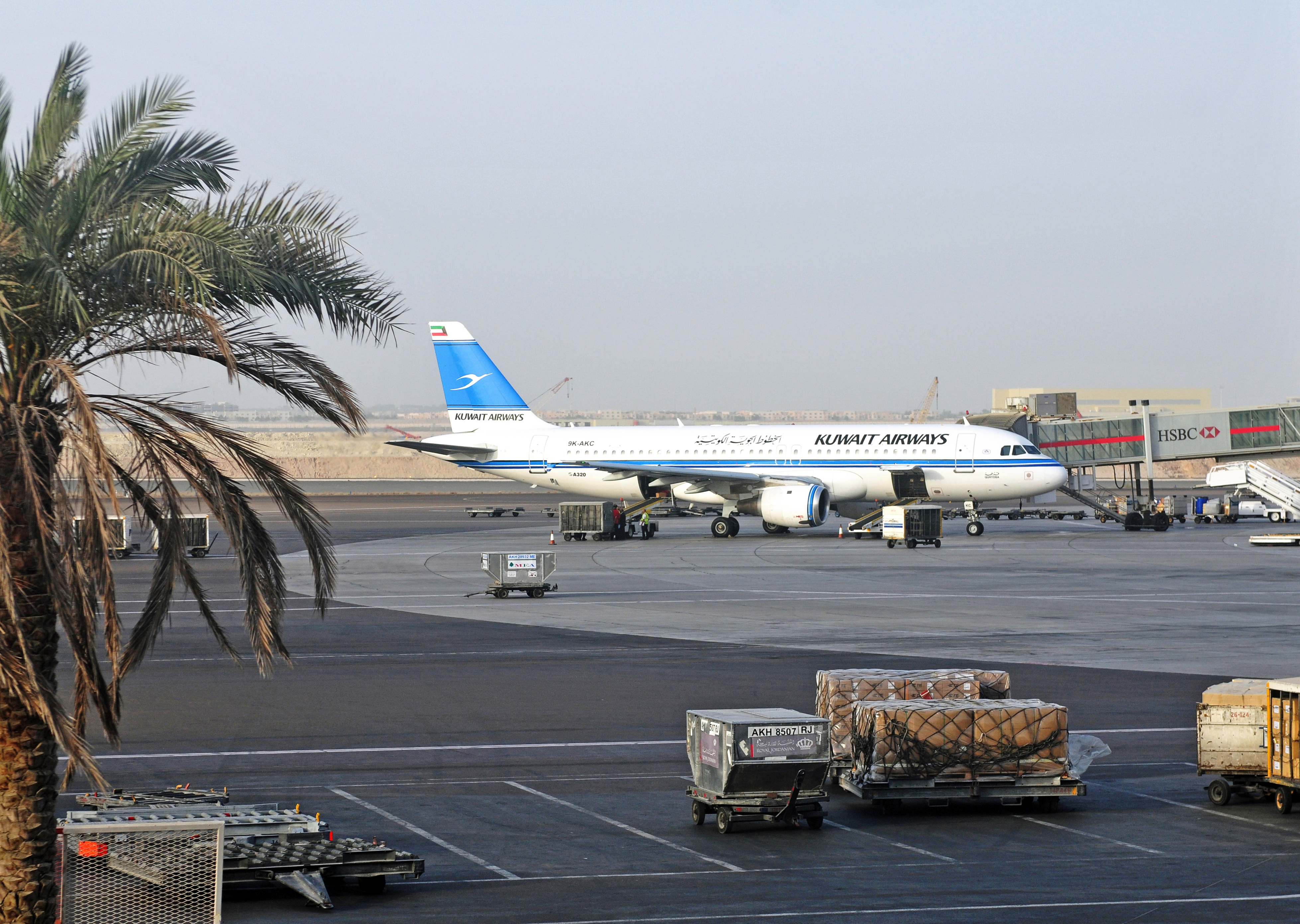 9K-AKC Airbus A320-212 of Kuwait Airways at Abu Dhabi Airport